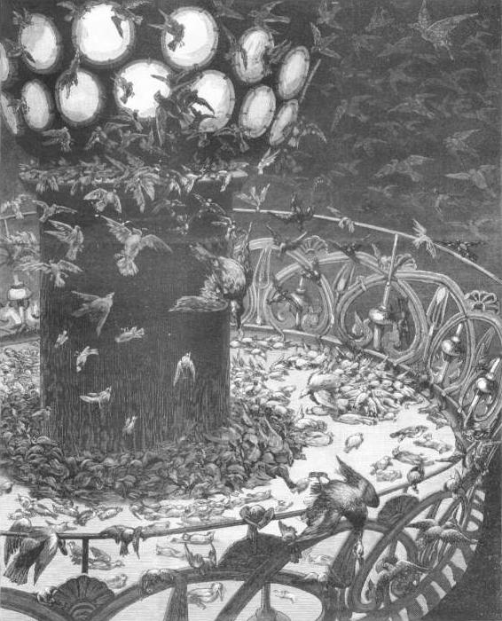 Liberty's Light a Lure to Death -- Thousands of Birds Blinded and Killed by the Flame in the Statue's Hand -- 1,375 Perish in a Single Night; sketch by a staff artist for Frank Leslie's Illustrated Newspaper, October 15, 1887.